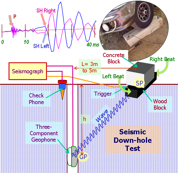 Seismic downhole test layout